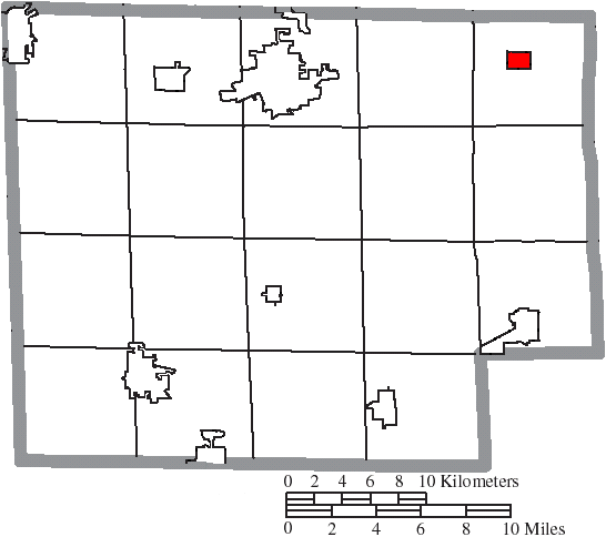 Map of the municipal and township boundaries of Huron County, Ohio, United States, as of the 2000 census, with the location of the village of Wakeman highlighted. Township borders are shown only in unincorporated areas in order to differentiate incorporated and unincorporated areas more clearly.